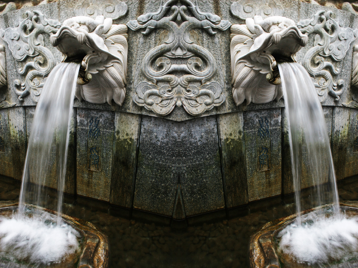 Butterfly Spring, Yunnan, China